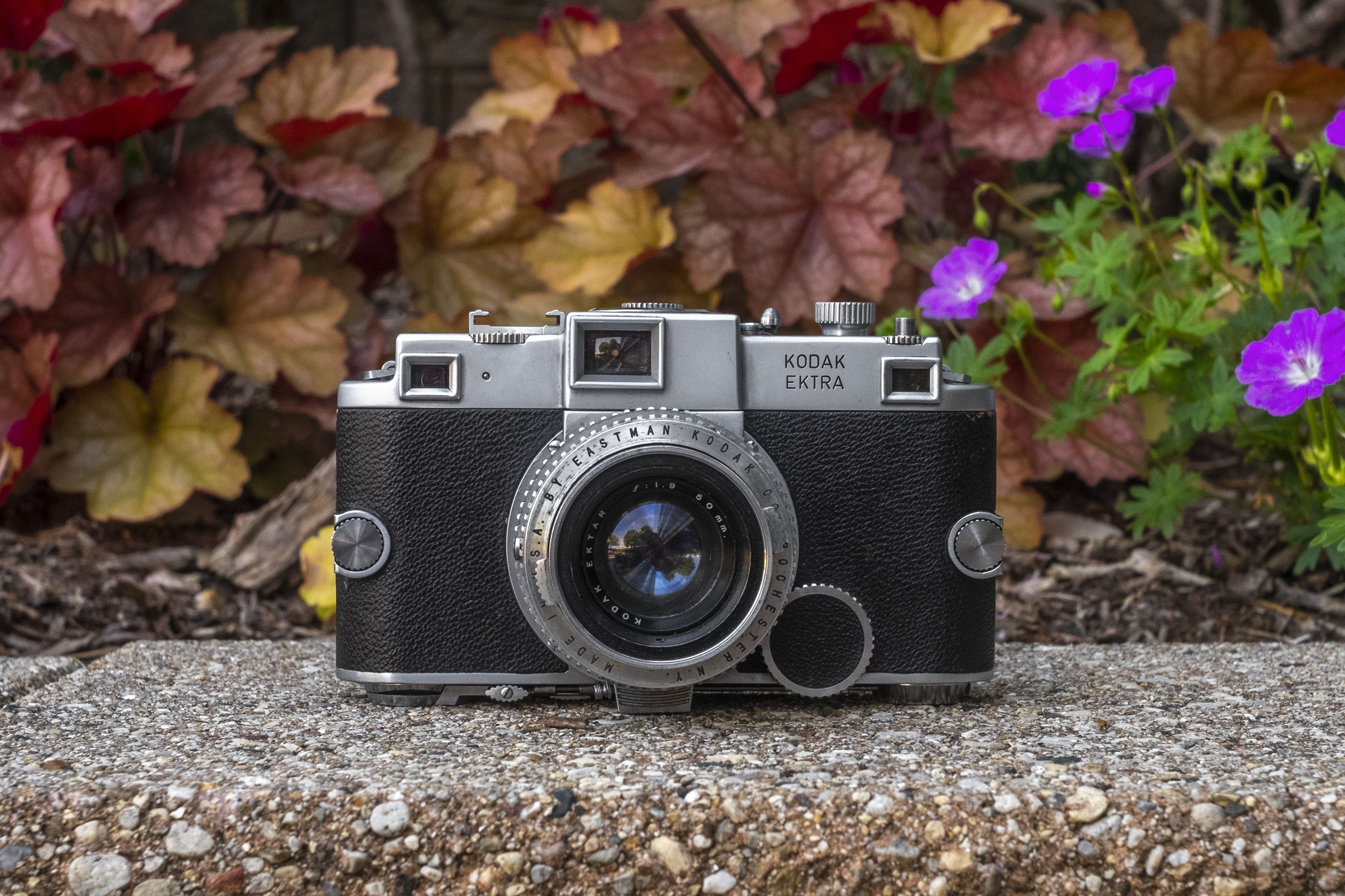 A Kodak Ektra, 35mm rangefinder camera, produced by the Eastman Kodak Company.